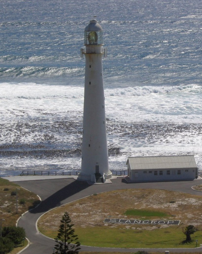 Slangkop Lighthouse, near Kommetjie, South Africa. .